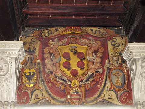 Coat of arms of the Medici family, from a fresco in the upper portion of the central hall of Montalto castle in Tuscany. Ornate capitals support the ceiling beams.